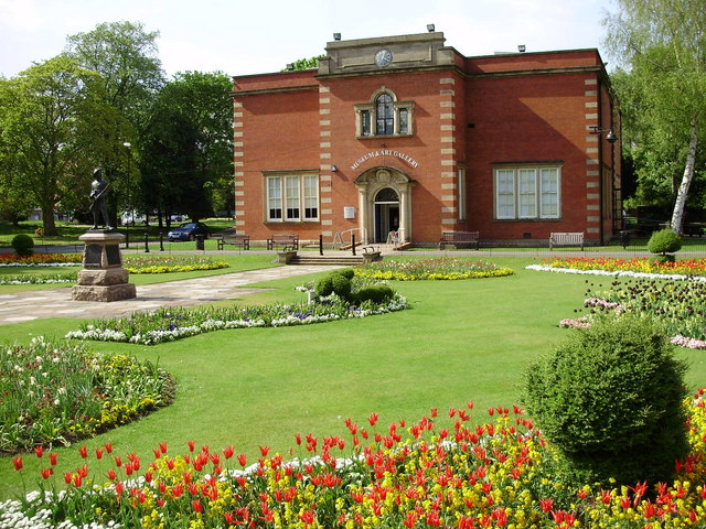 Museum and Art Gallery in Riversley Park, Nuneaton, Warwickshire. On the left of the picture is the town's Boer War monument.